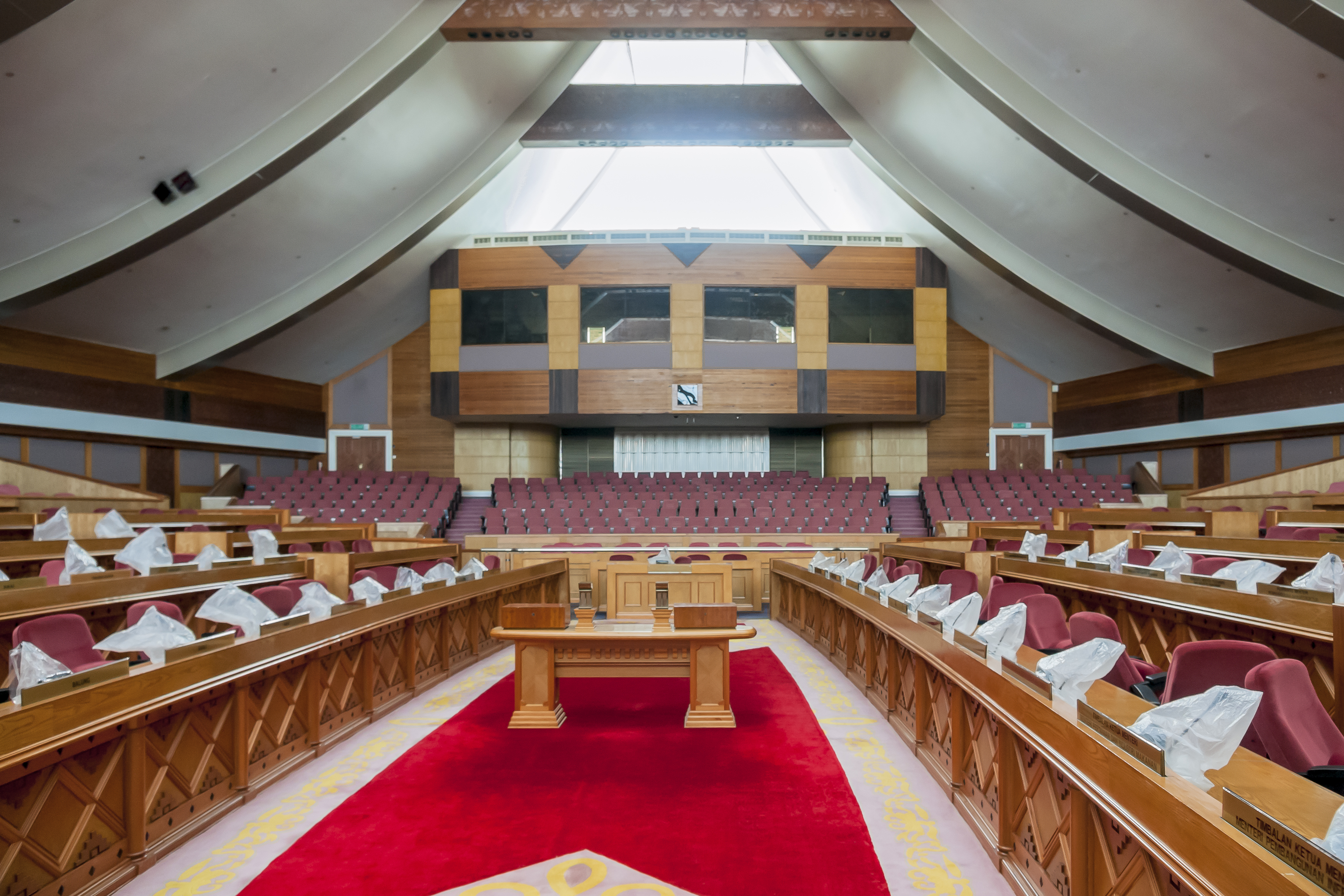 Dewan Undangan Negeri Sabah (Sabah State Legislative Assembly: Interior view of council chamber for the state assembly